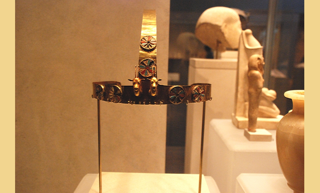 A rare diadem or crown from the tomb of pharaoh Thutmose III's 3 foreign (Syrian) wives, Menhet, Menwi and Merti, found at Wady Gabbanat el-Qurud in Upper Egypt. Their tomb here was originally looted in 1916 by local villagers but their treasures were later reassembled and is now located in the Metropolitan Museum of New York.